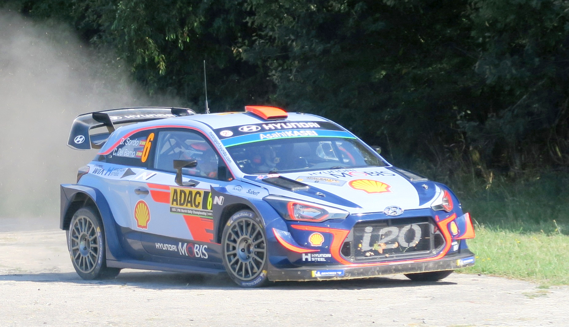 Hyundai i20 Coupe WRC of Dani Sordo Rallye Deutschland 2018